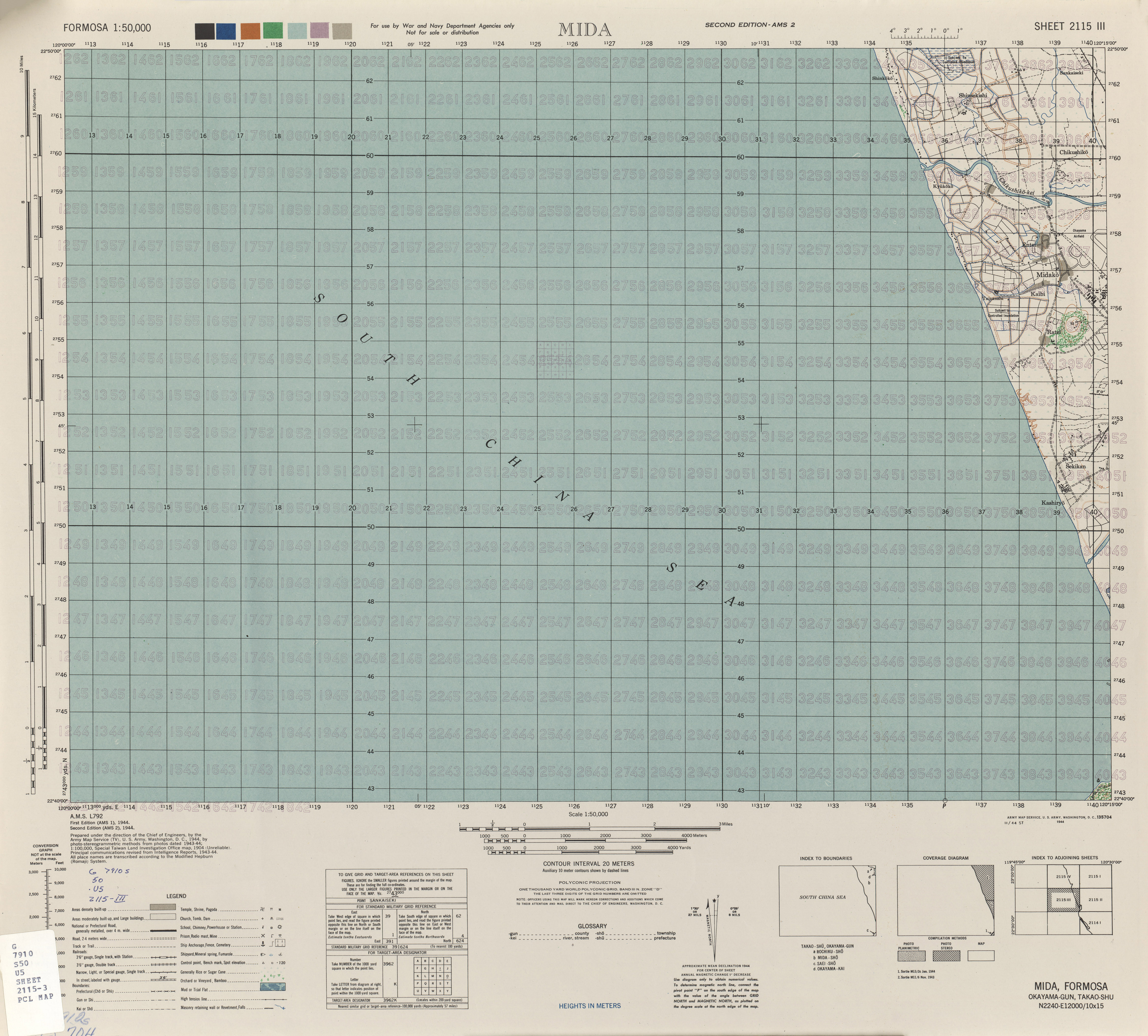 Map from Formosa (Taiwan) 1:50,000 AMS Series L792